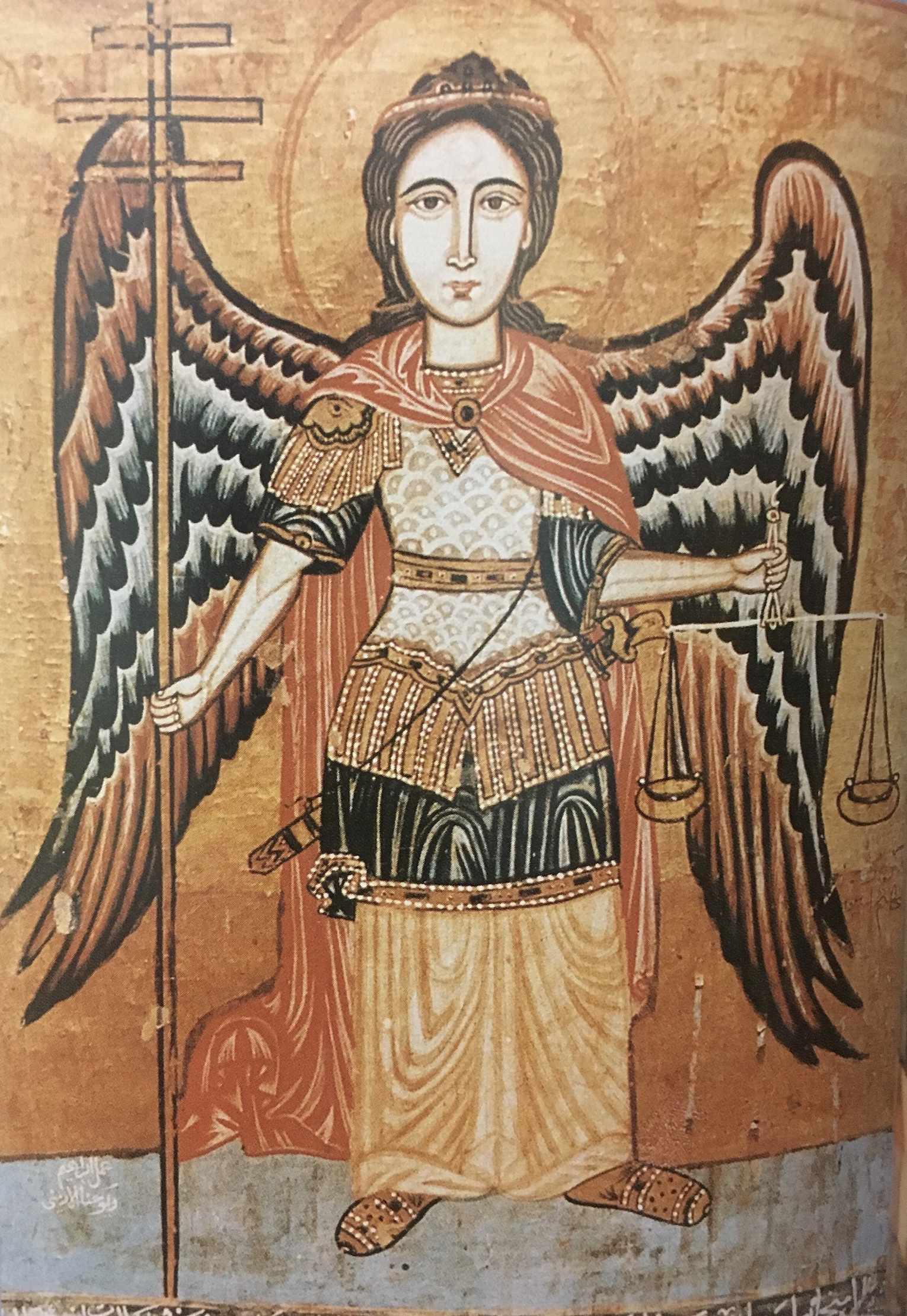 The Archangel Michael, icon, 18th century, Coptic Museum, Cairo. The Archangel Michael holds the scale of judgement for the weighing of souls, like the ancient Egyptian god Thoth. — Coptic Egypt: The Christians of the Nile, Christian Cannuyer, ‘New Horizons’ series. Thames & Hudson, 1 June 2001. Image at p. 88; description at p. 89 and p. 139.